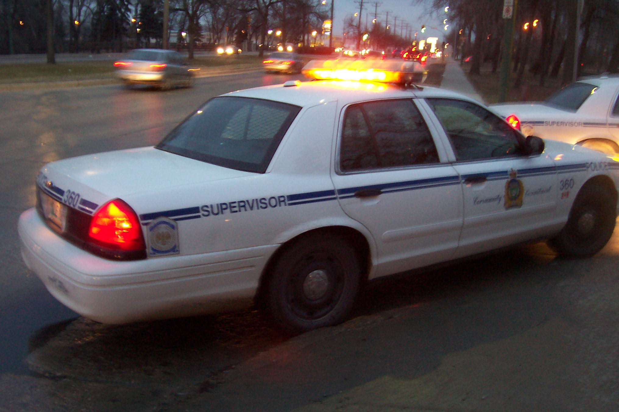 Winnipeg Police Service car.